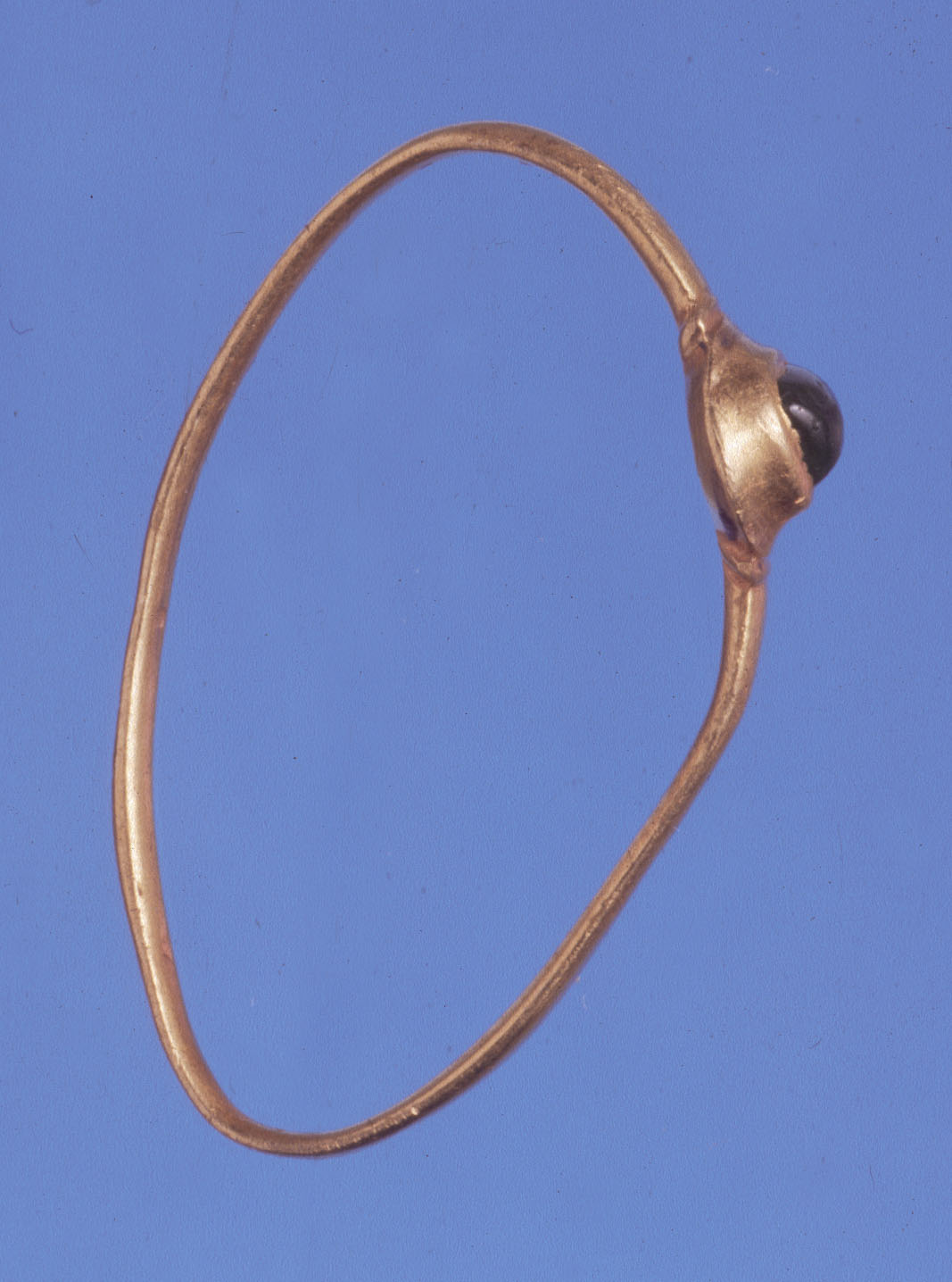 2002T288, Llanfaes, Isle of Anglesey, Wales This was added from the site called under the name portableantiquities. See source for details.